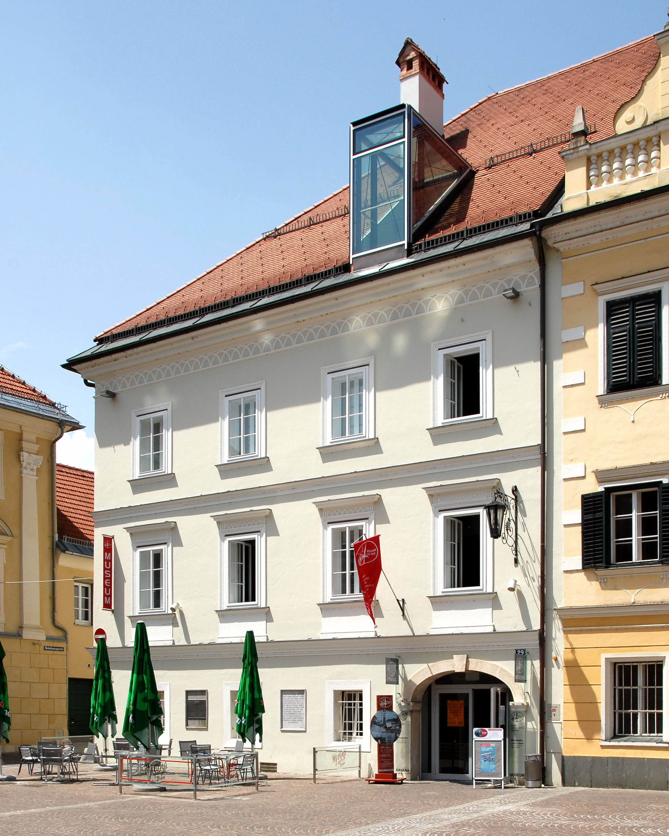 Museum for traffic- and city-history on the main-square in the city of Sankt Veit an der Glan, Carinthia, Austria